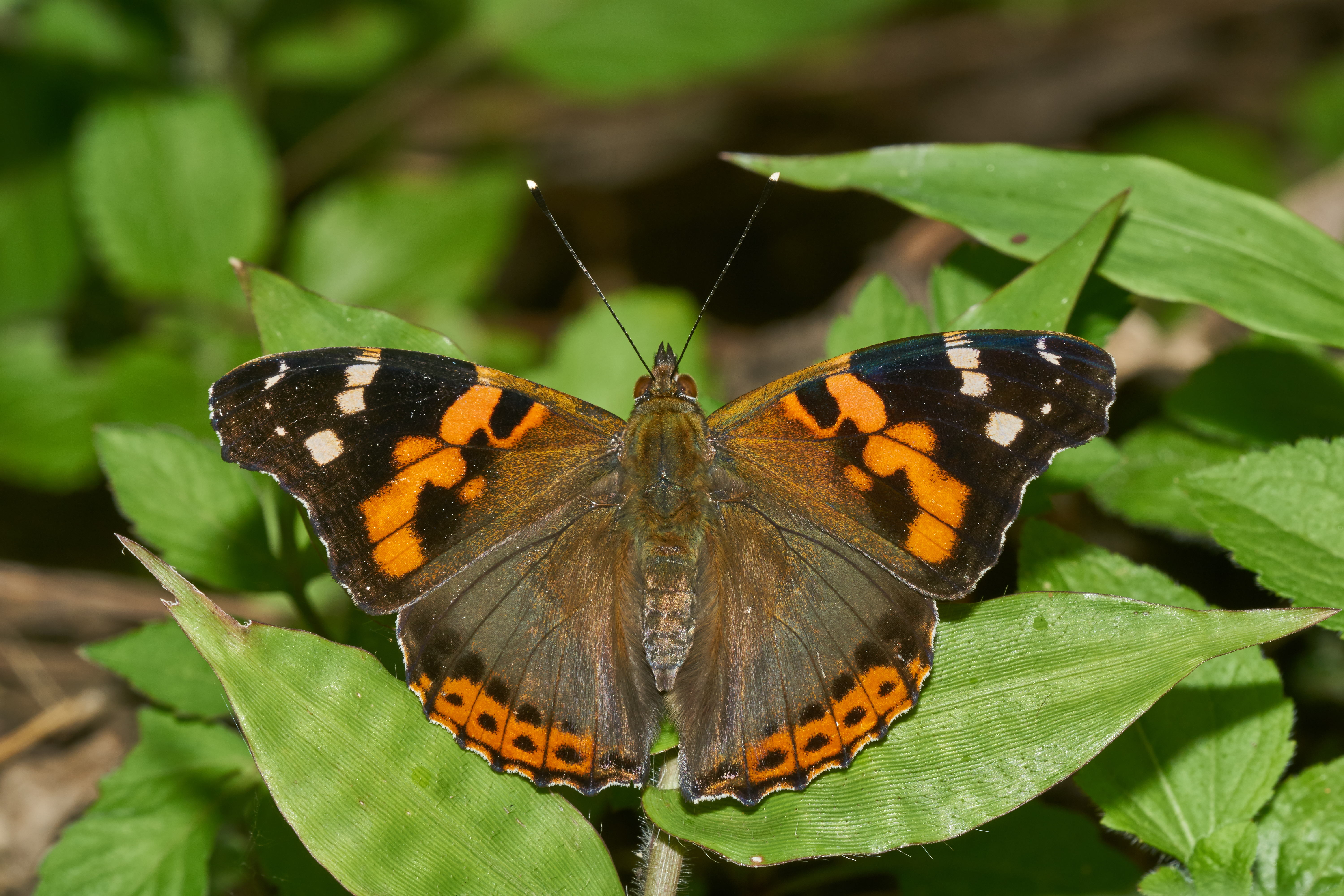 Vanessa indica, Indian Red Admiral, is a butterfly found in the higher altitude regions of India.